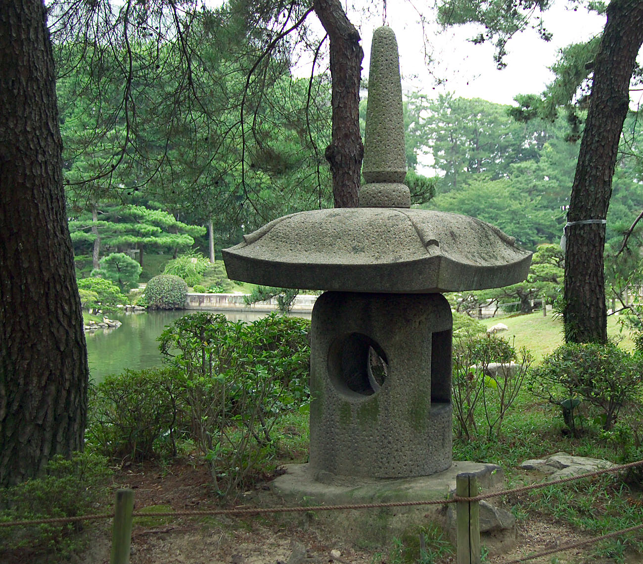 Yōkihi (Yang Guifei) stone lantern, so named for its supposed resemblance to her headdress, at Shukkeien, a garden near Hiroshima Castle, Hiroshima, Japan. I took this photo and contribute my rights in the file to the public domain; people and organizations retain rights to images in it.